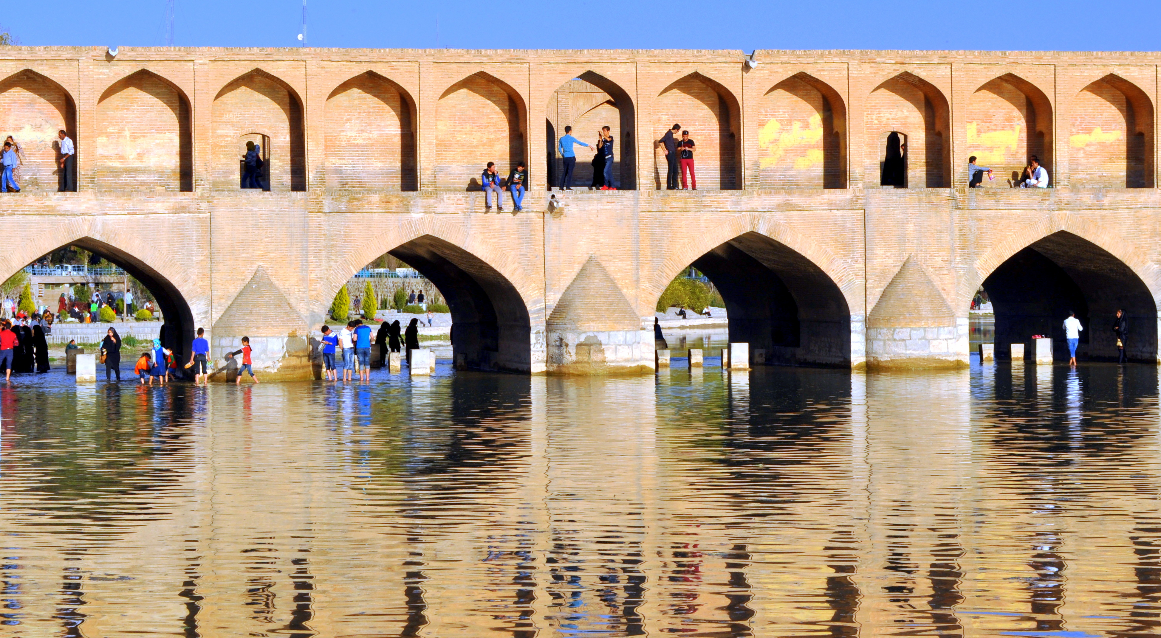 Si-o-seh pol